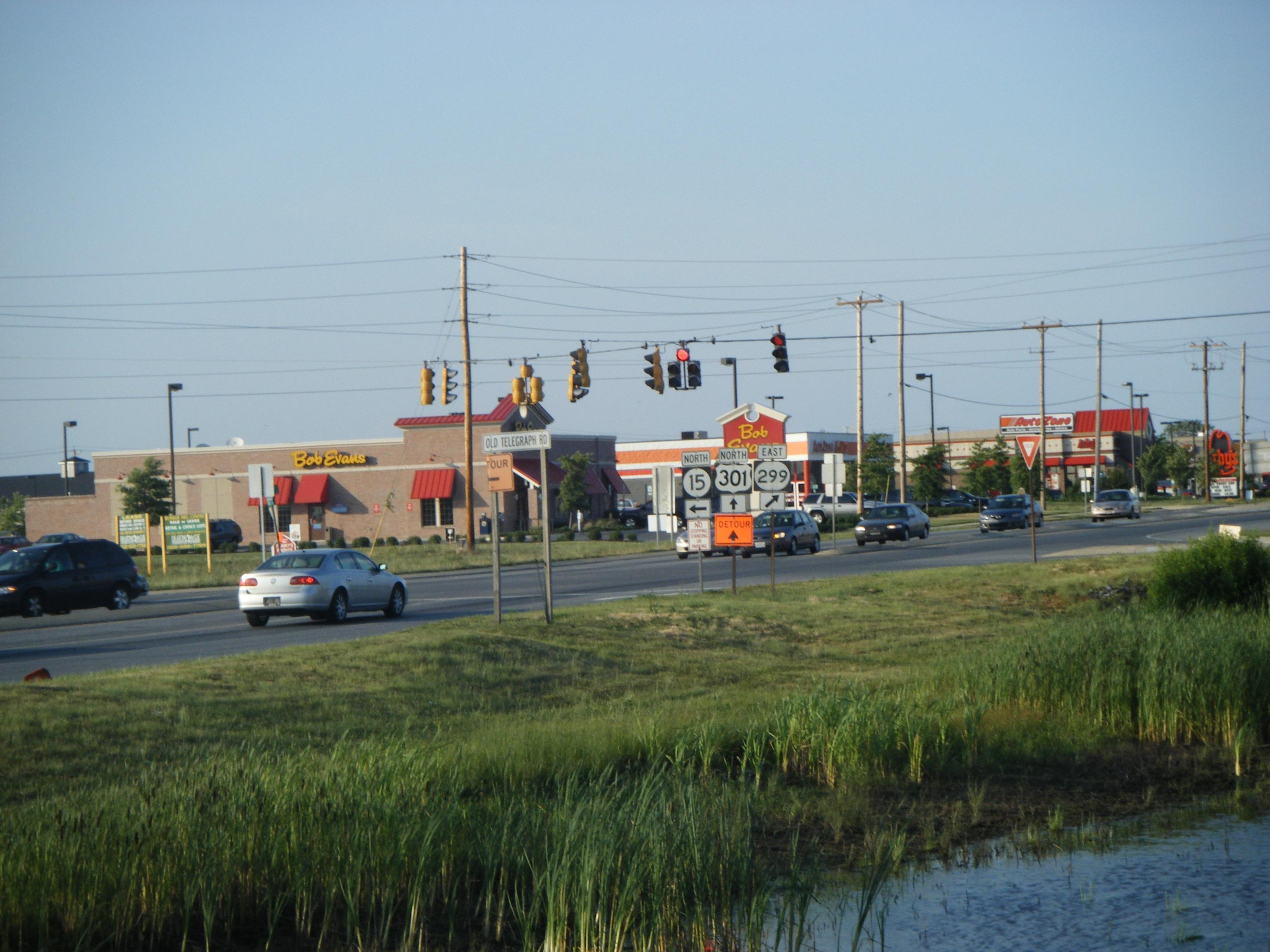 Northern terminus of the concurrency of U.S. Route 301/Delaware Route 15/Delaware Route 299 in Middletown, Delaware. At the intersection, Delaware Route 15 makes a left turn, U.S. Route 301 continues straight, and Delaware Route 299 makes a right turn.